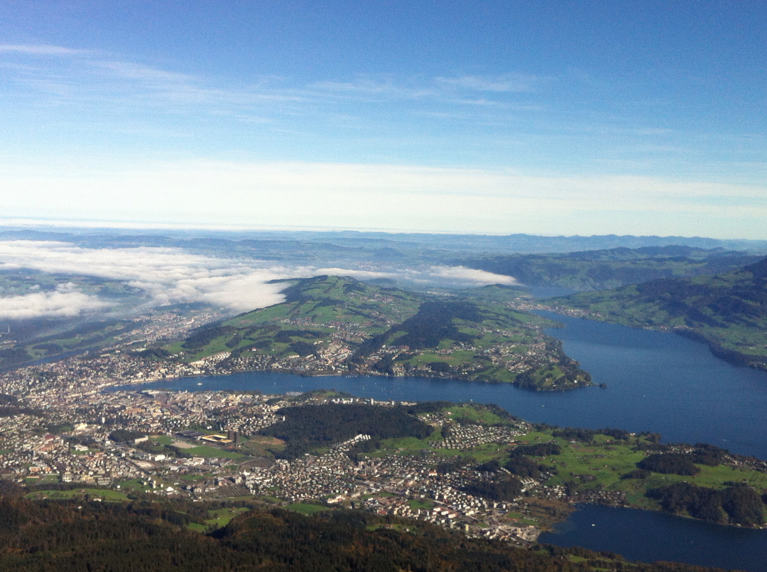 Lake Lucerne. View from the Pilatus.